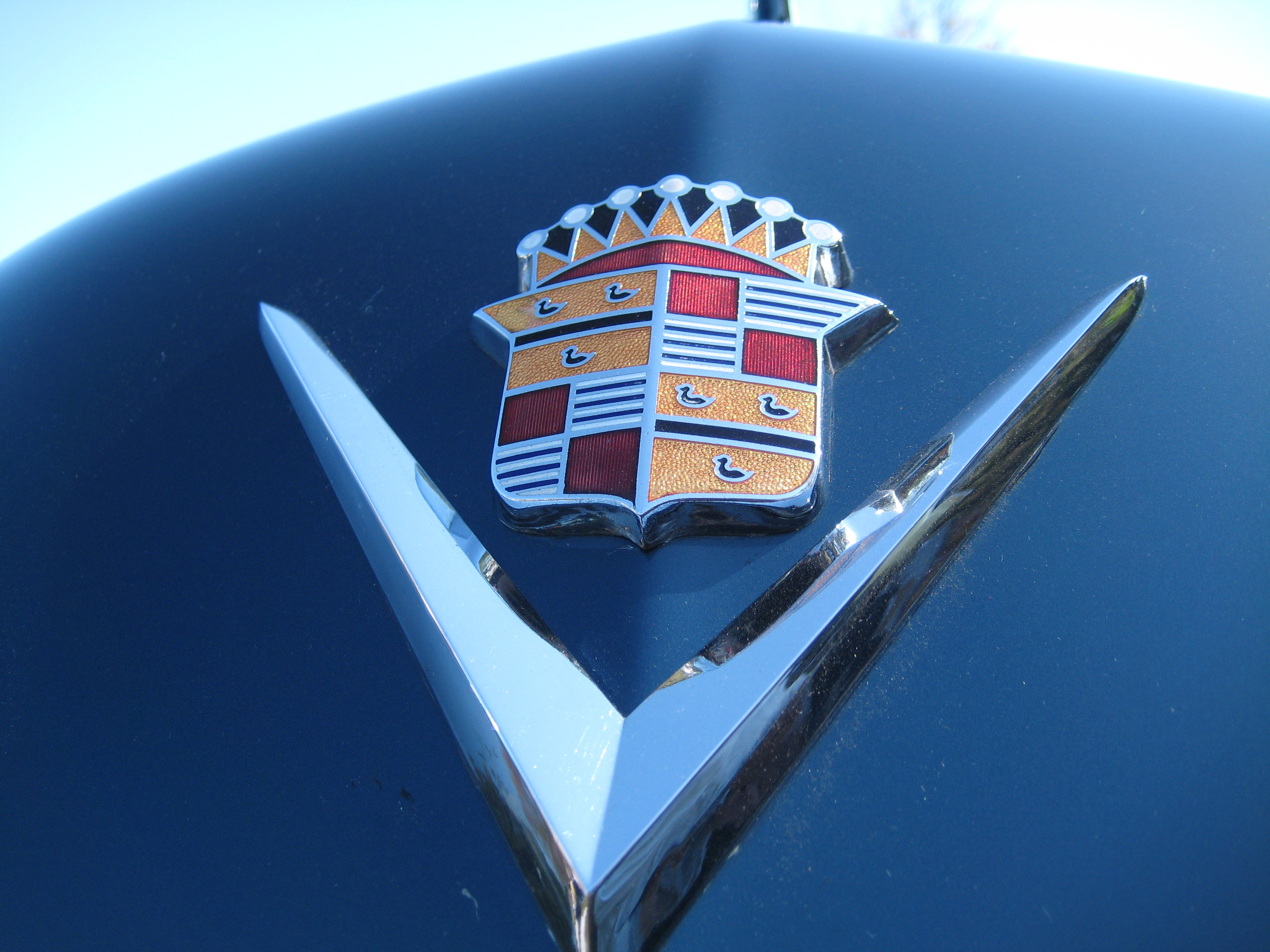 Seen in the car show at fall Hershey 2010.